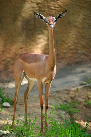 Female Gerenuk (Litocranius walleri)